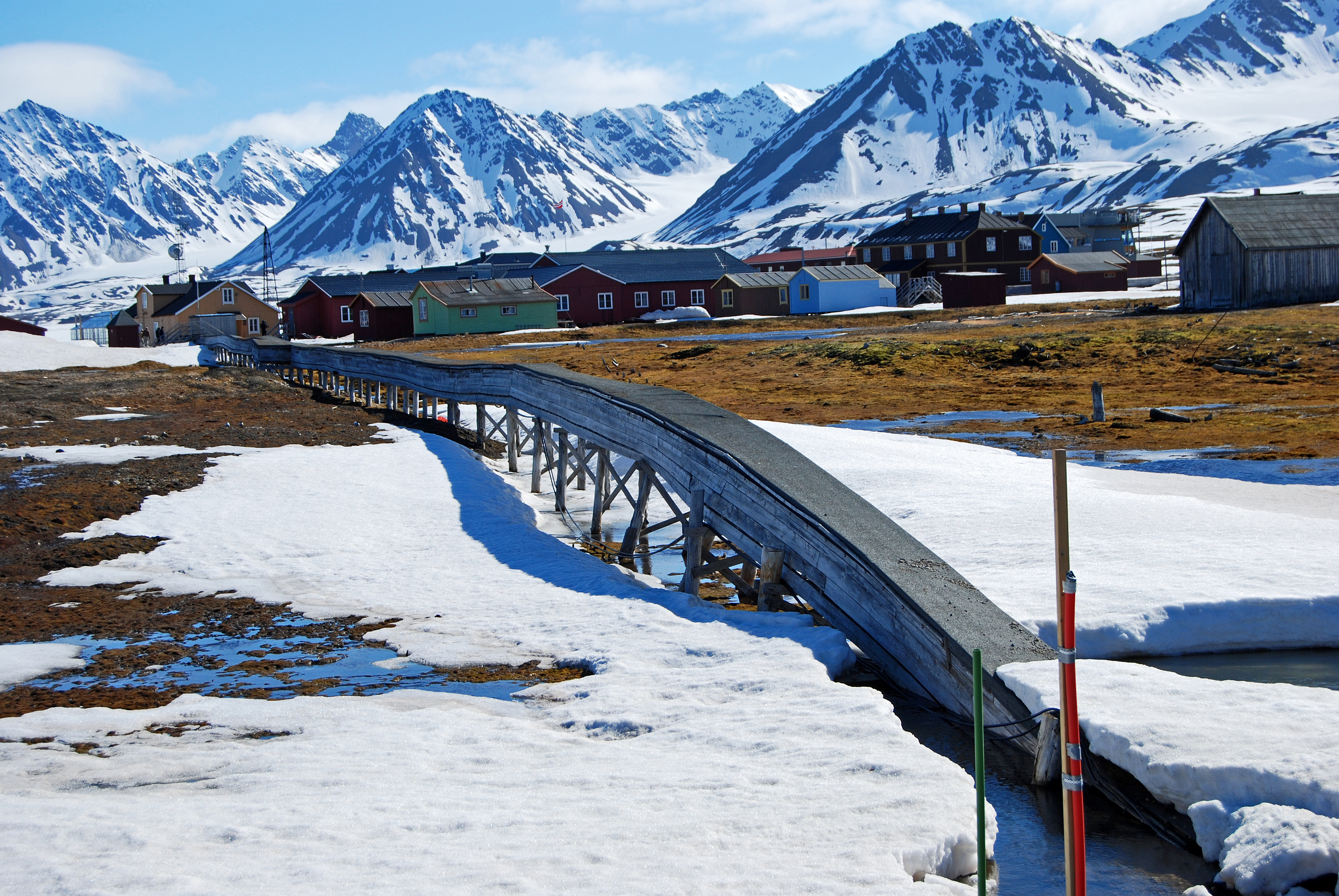 Ny-Ålesund is one of the four permanent settlements on the island of Spitsbergen in the Svalbard archipelago / a winter bridge